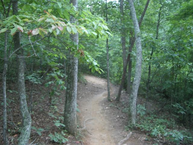 A cross-country-style single track mountain bike trail near Woodstock, GA.